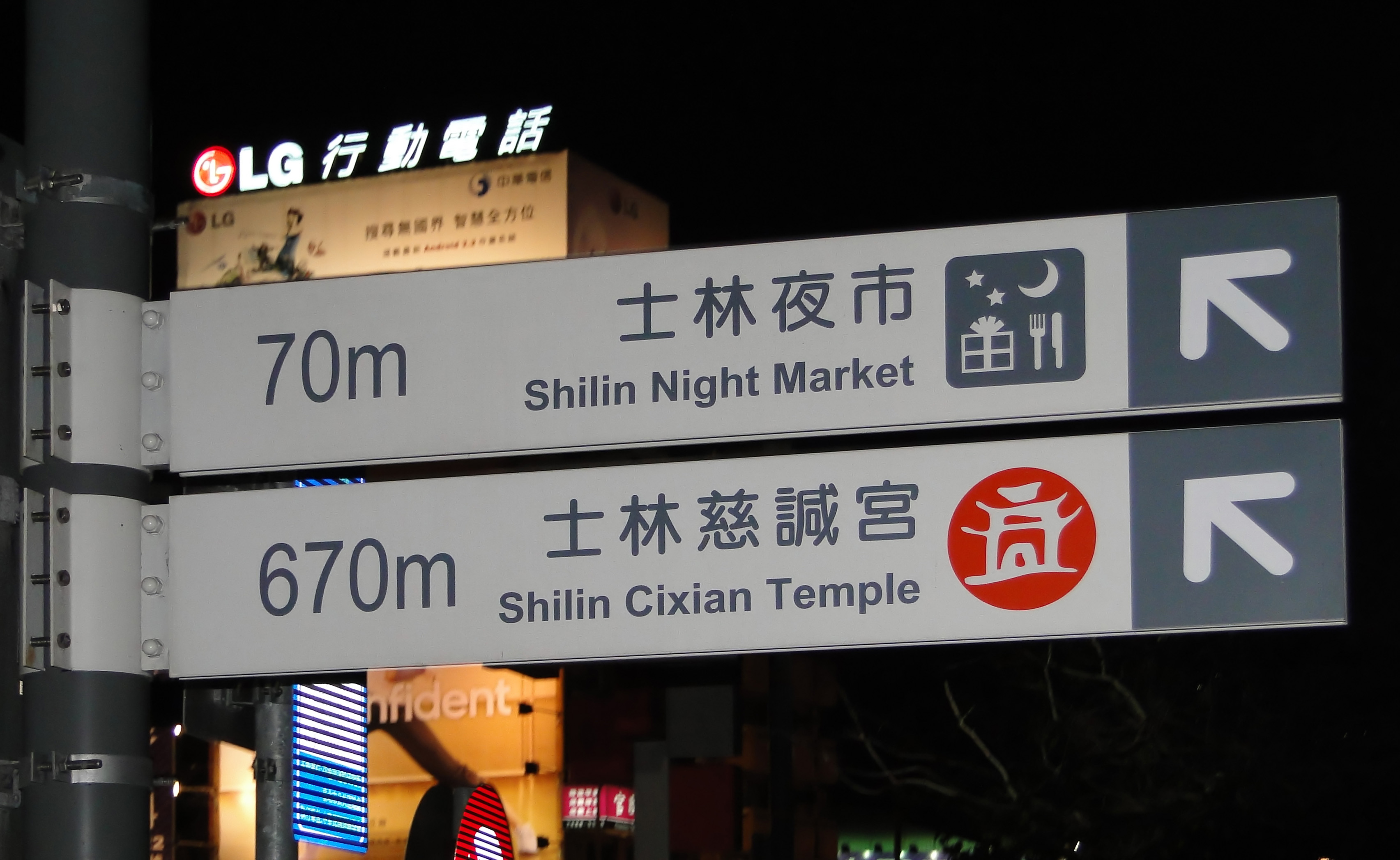 Directional signs of Shilin Night Market and Shilin Cixian Temple in Taipei, Taiwan